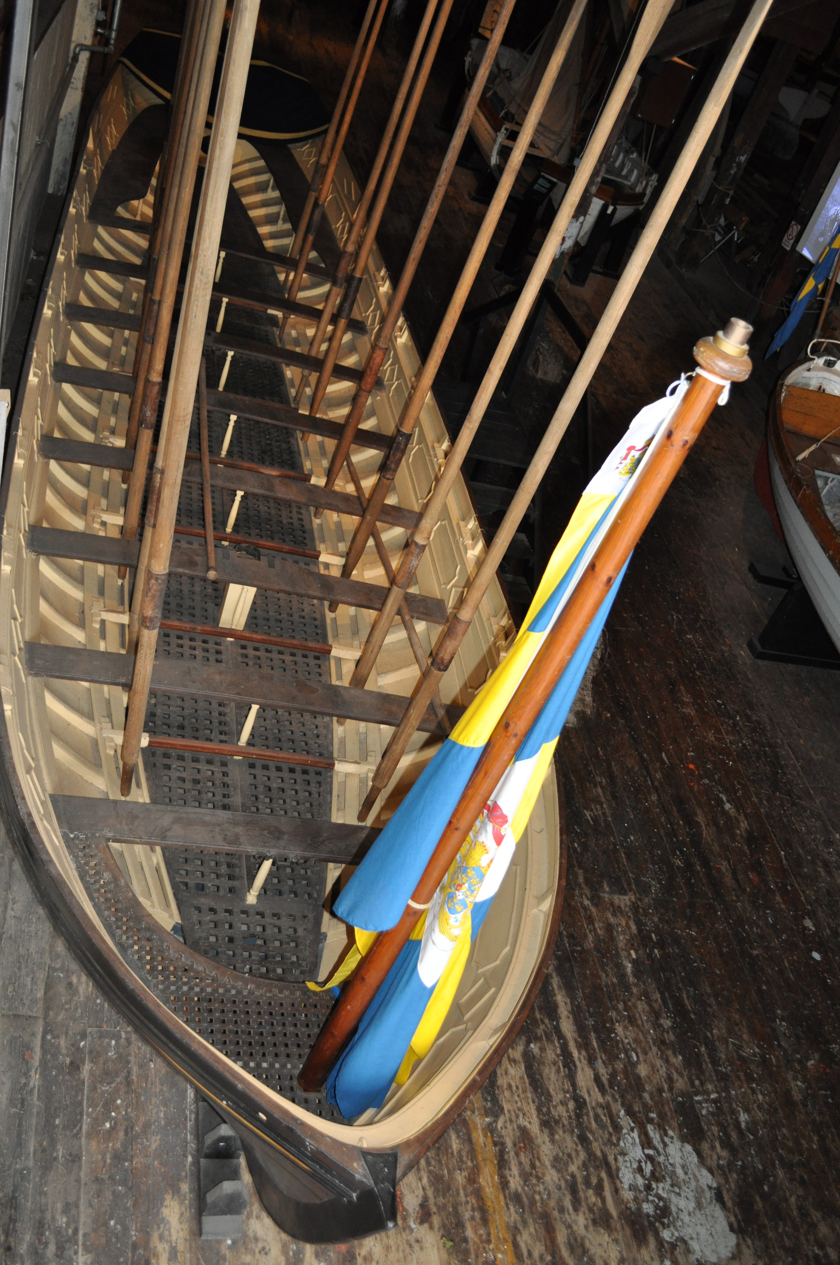 Royal slop - Kungaslup Mainmuseum Karlskrona